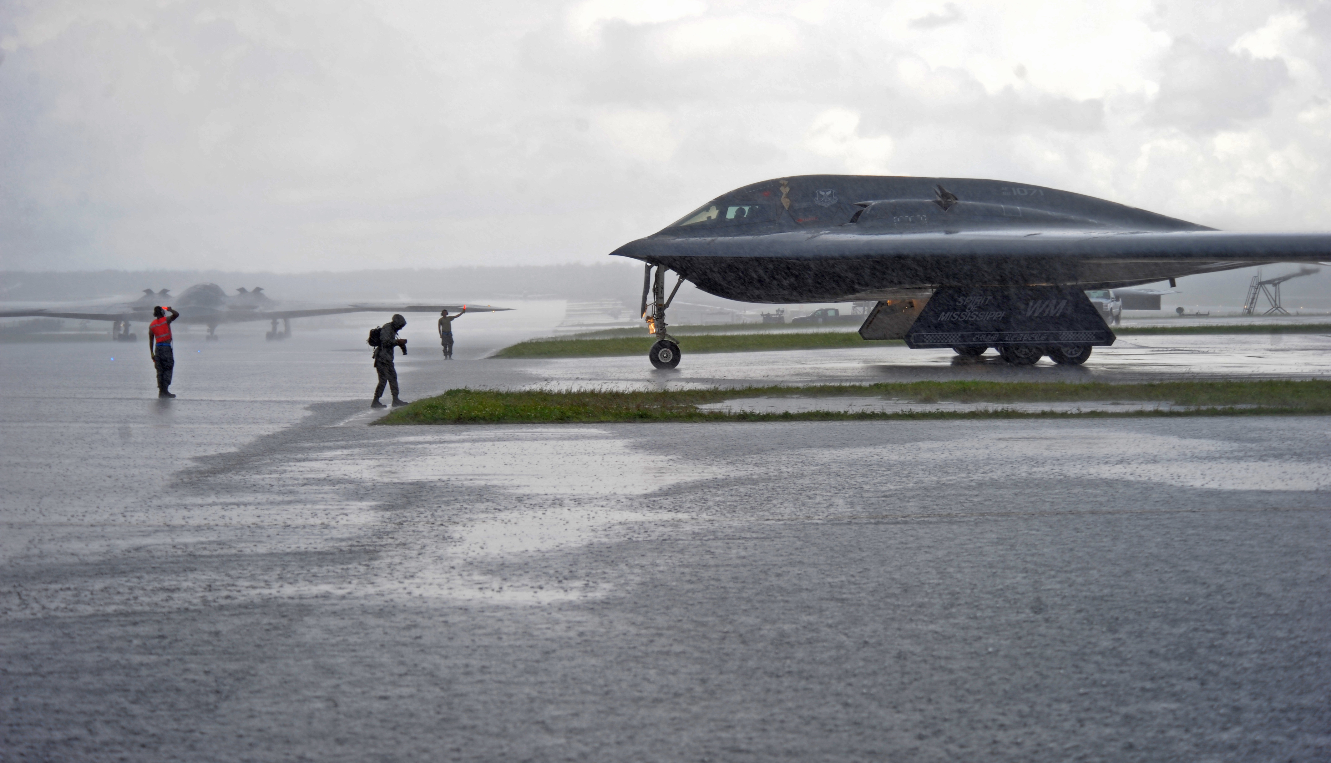 B-2 Spirits deployed from Whiteman Air Force Base, Mo., taxi toward the flightline prior to take off at Andersen AFB, Guam, Aug. 11, 2016. Bomber crews readily deploy in the Indo-Asia-Pacific region to conduct global operations in coordination with other combatant commands, services, and appropriate U.S. government agencies to deter and detect strategic attacks against the U.S., its allies and partners. (U.S. Air Force photo/Tech. Sgt. Miguel Lara III)